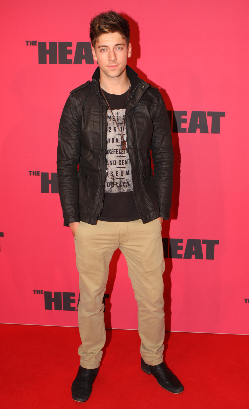 Actor Lincoln Younes at The Heat movie premiere in Sydney, Australia on 2nd July 2013